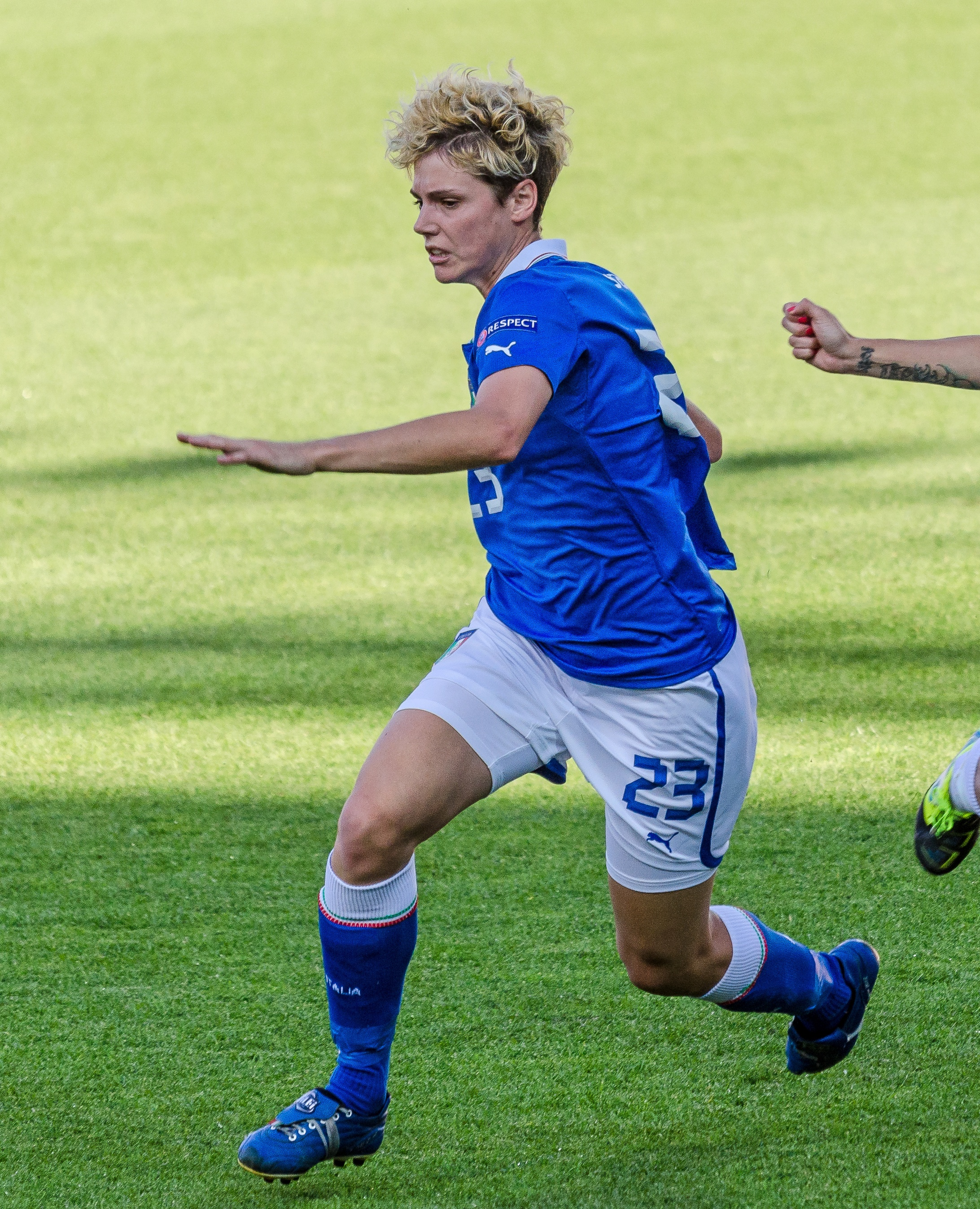 Italian football defender Cecilia Salvai playing the Quarter final against Germany in the UEFA Women's Euro 2013 at Myresjöhus Arena in Växjö.